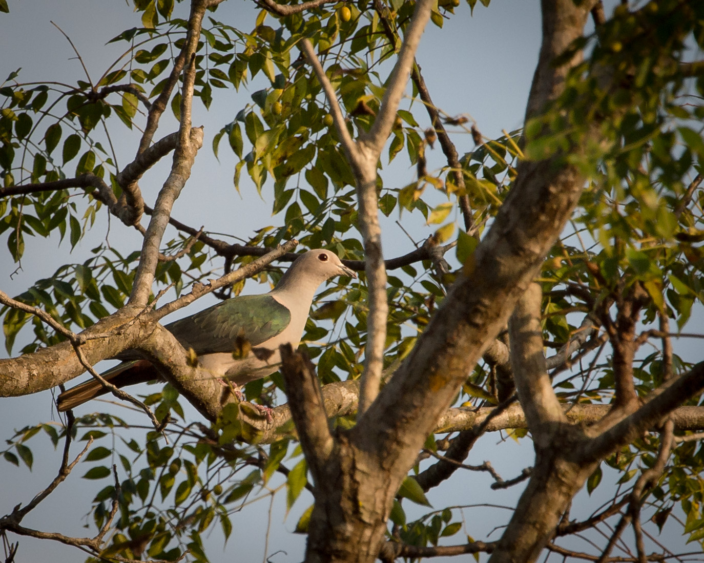 Green Imperial Pigeon (Ducula aenea) at Huai Kha Khaeng Wildlife Sanctuary, Thailand